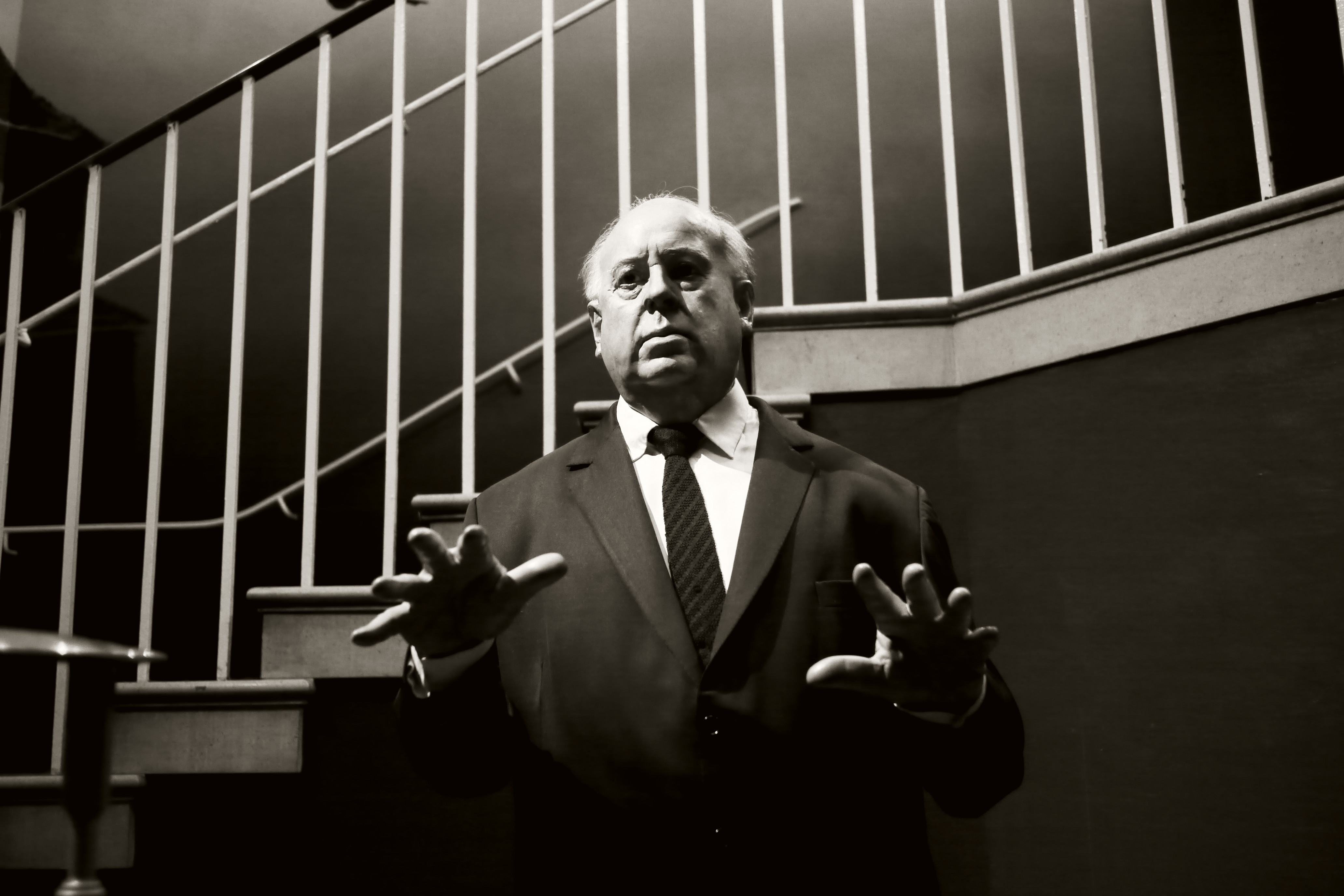 Alfred Hitchcock (Madame Tussauds London).